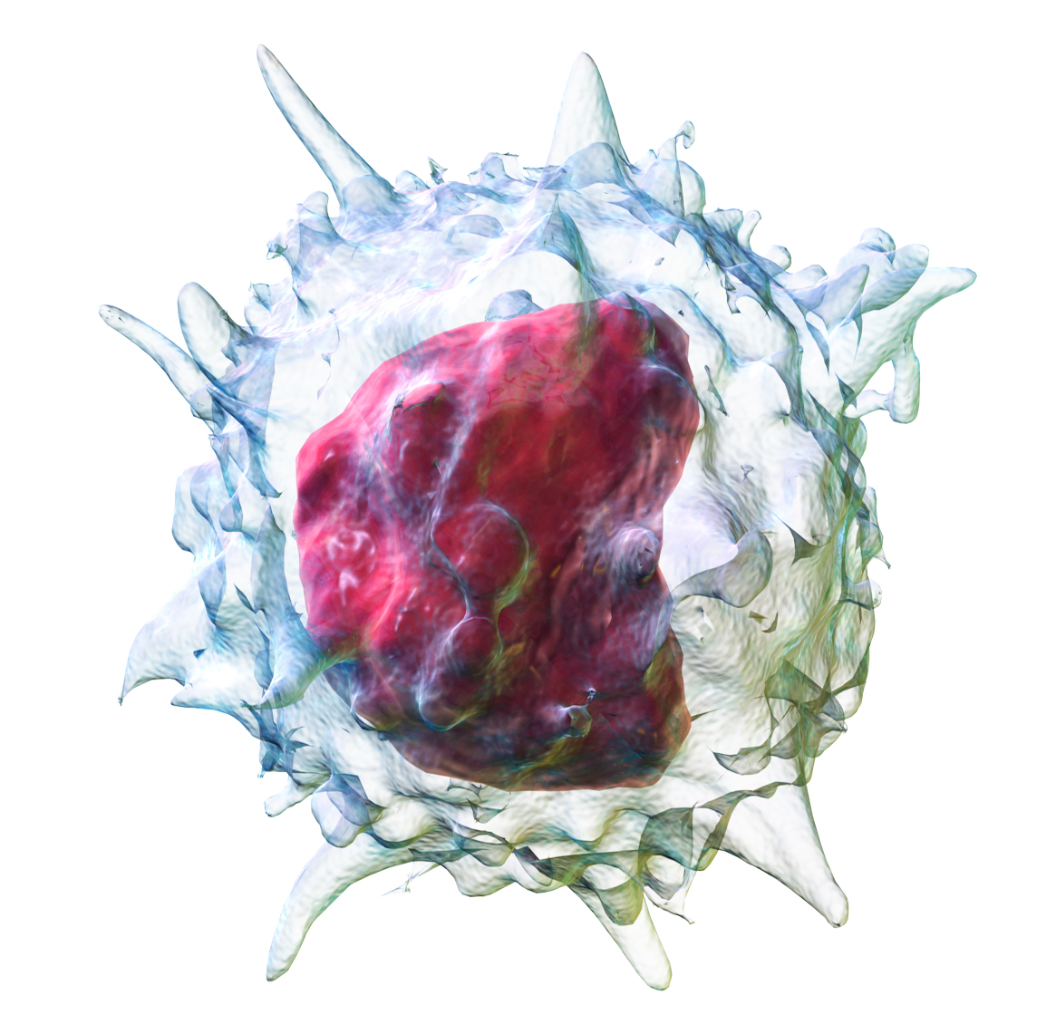 Monocyte